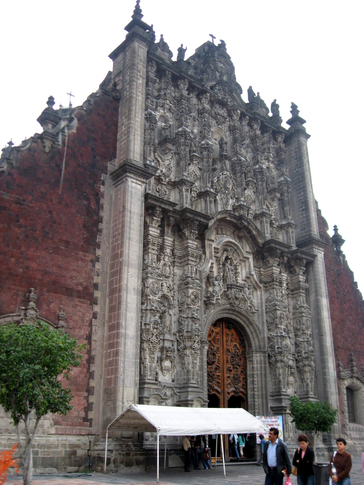 Entrance to the Metropolitan Sagrarium, next to the Cathedral in Mexico City